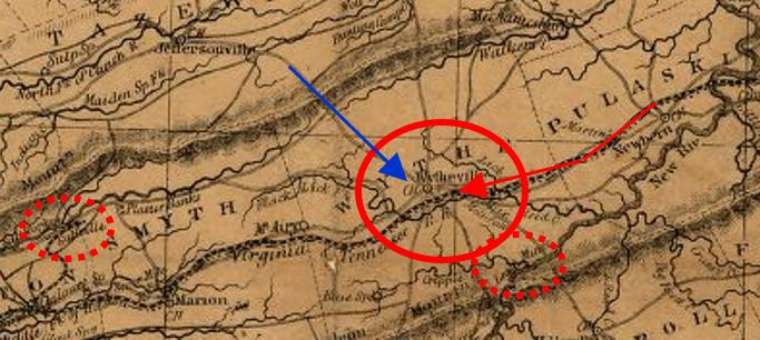 The base map is a portion of a map created by West & Johnson and published in Richmond in 1862. It was downloaded from the US Library of Congress, and modified by TwoScarsUp by adding circles for points of interest involving the Wytheville raid made by Union Cavalry during July 1863 in southwestern Virginia.